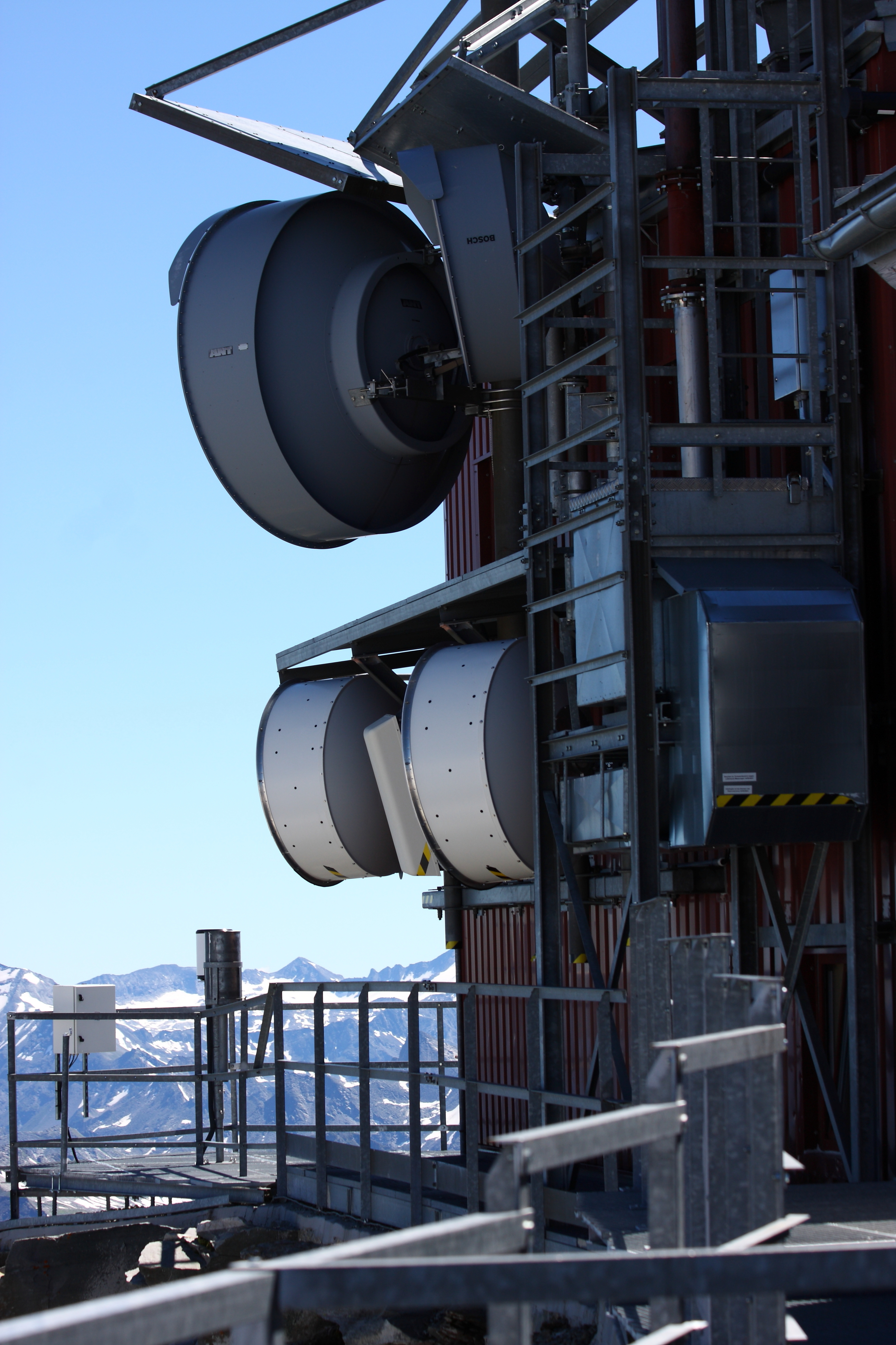 Zittelhaus and meteorological station on the peak of the Hoher Sonnblick, Austria